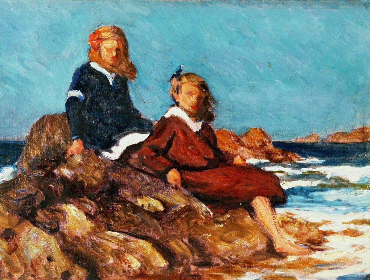 A painting from the Framed Works of Art collection at the National Library of wales.